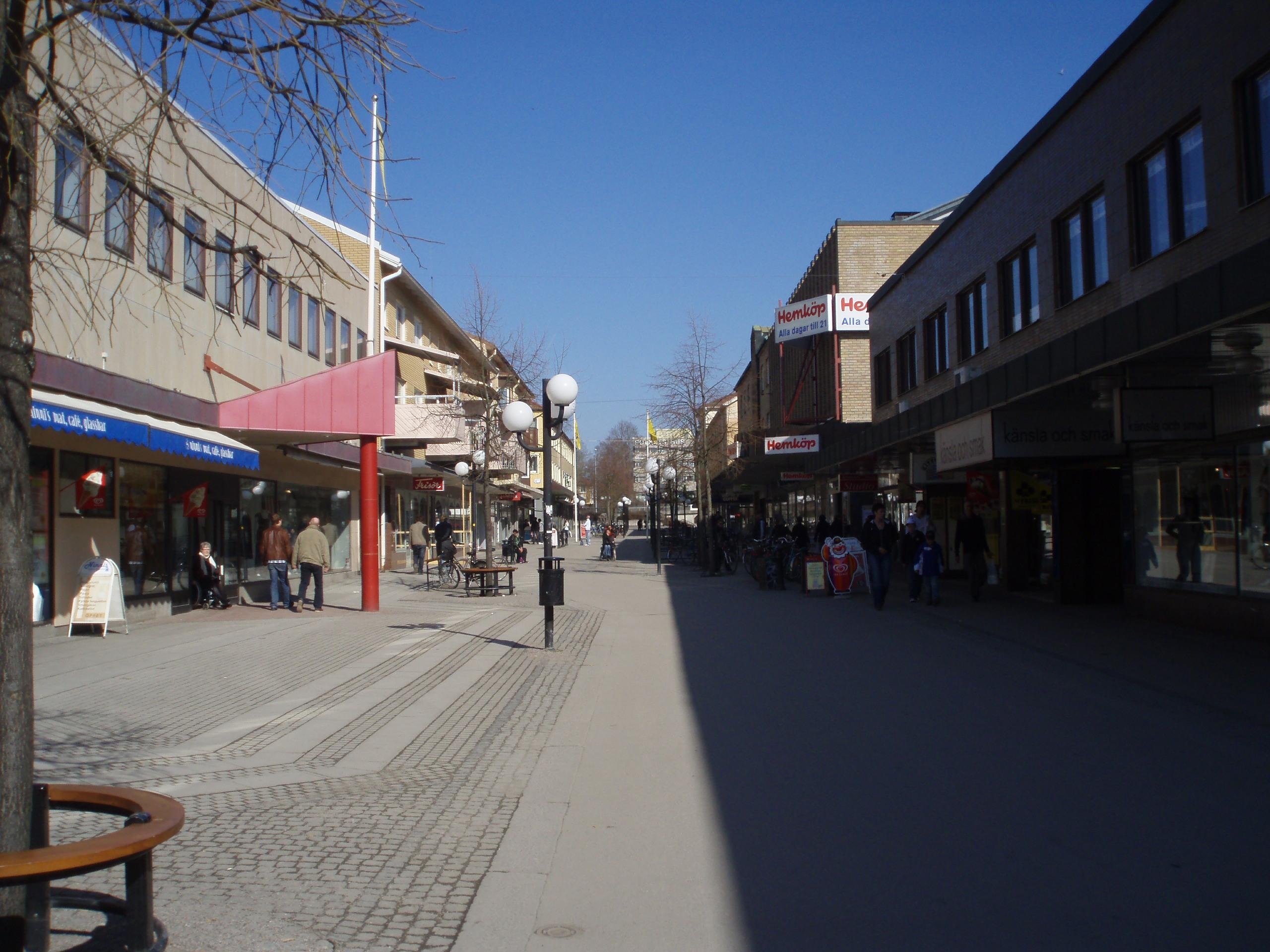 A street in Köping, Sweden